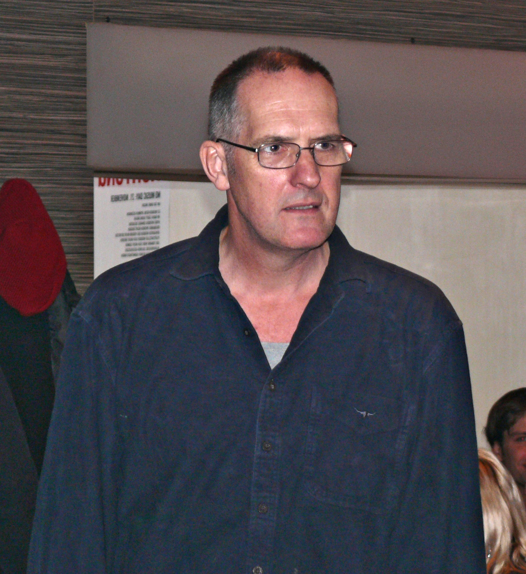 Bill Drummond talking about No Music Day project in Cafe Solaris in Linz where the closing ceremony of No Music Day 2009 was held.